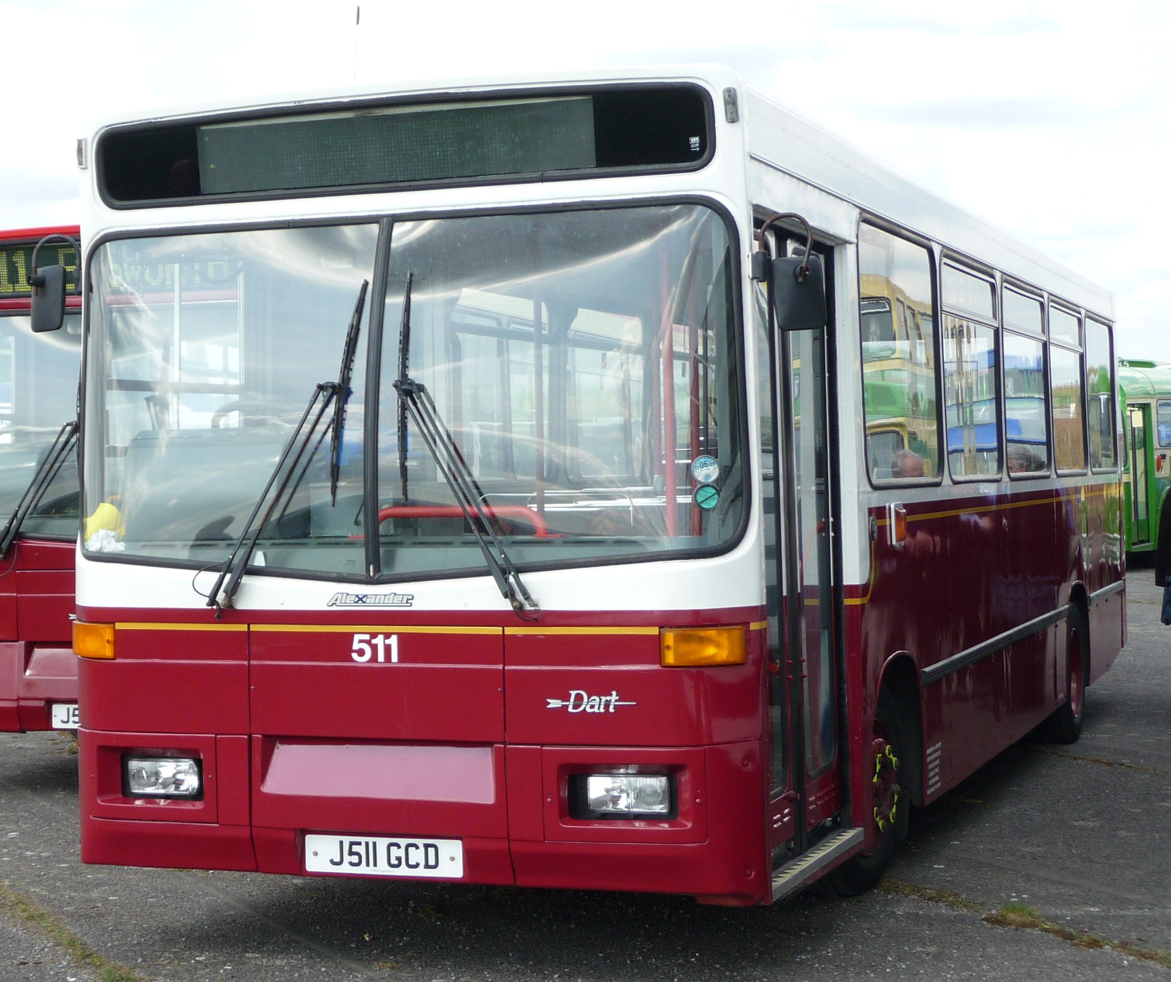 Emsworth & District's 511 (J511 GCD), a Dennis Dart/Alexander Dash, at the 2009 Cobham bus rally at Wisley Airfield. It's one of the buses chosen by the company to wear historic local liveries, 511 being the Portsmouth Corporation variant.